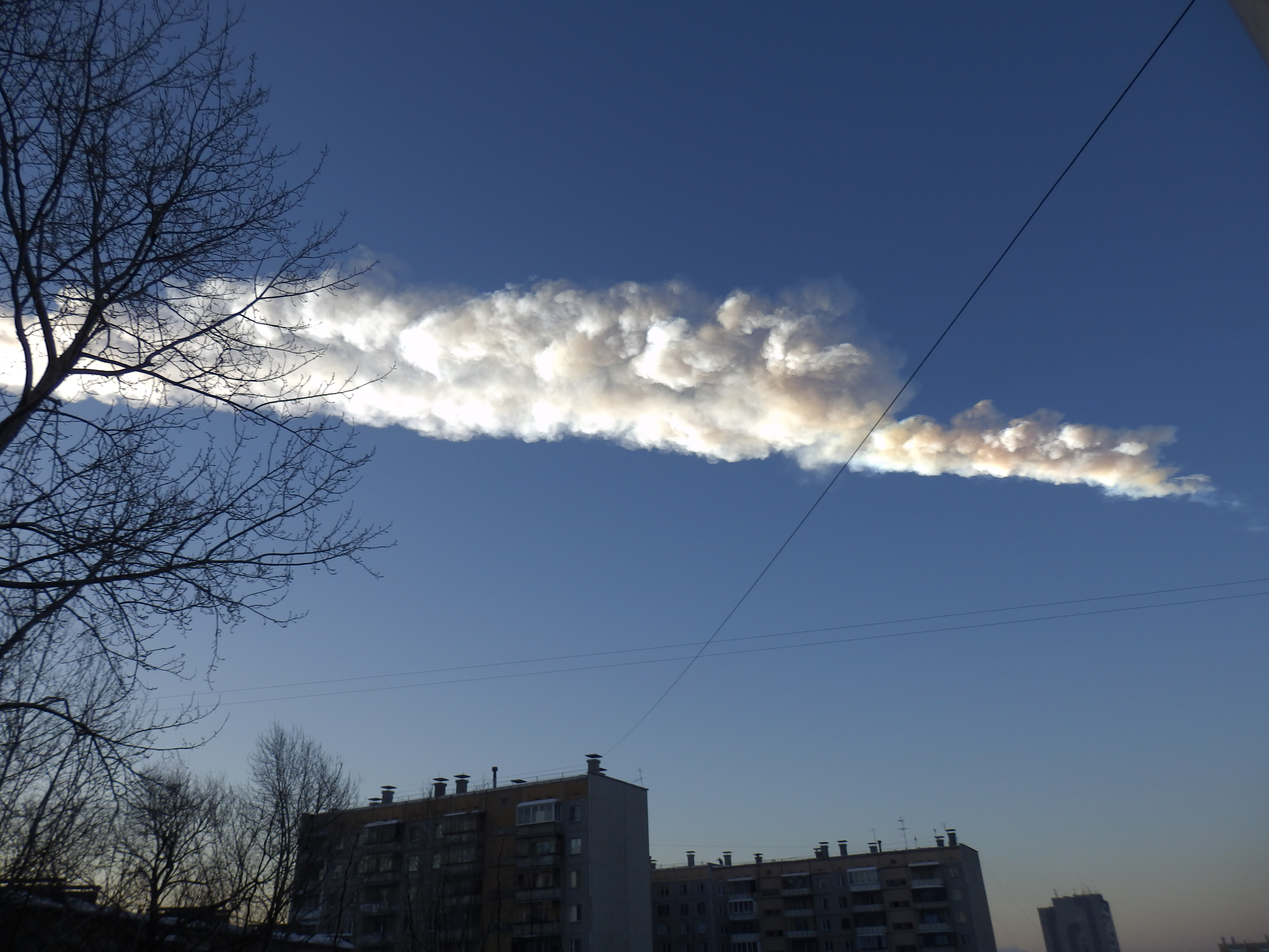 A trace of the meteorite in Chelyabinsk, 2-3 minutes after the detonation